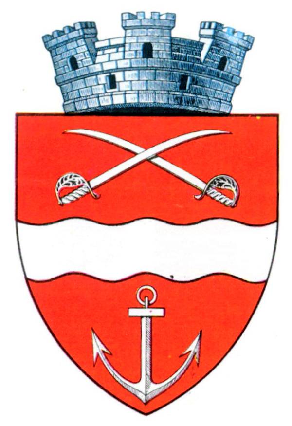 Interwar coat of arms of Zimnicea, Teleorman County, Kingdom of Romania.